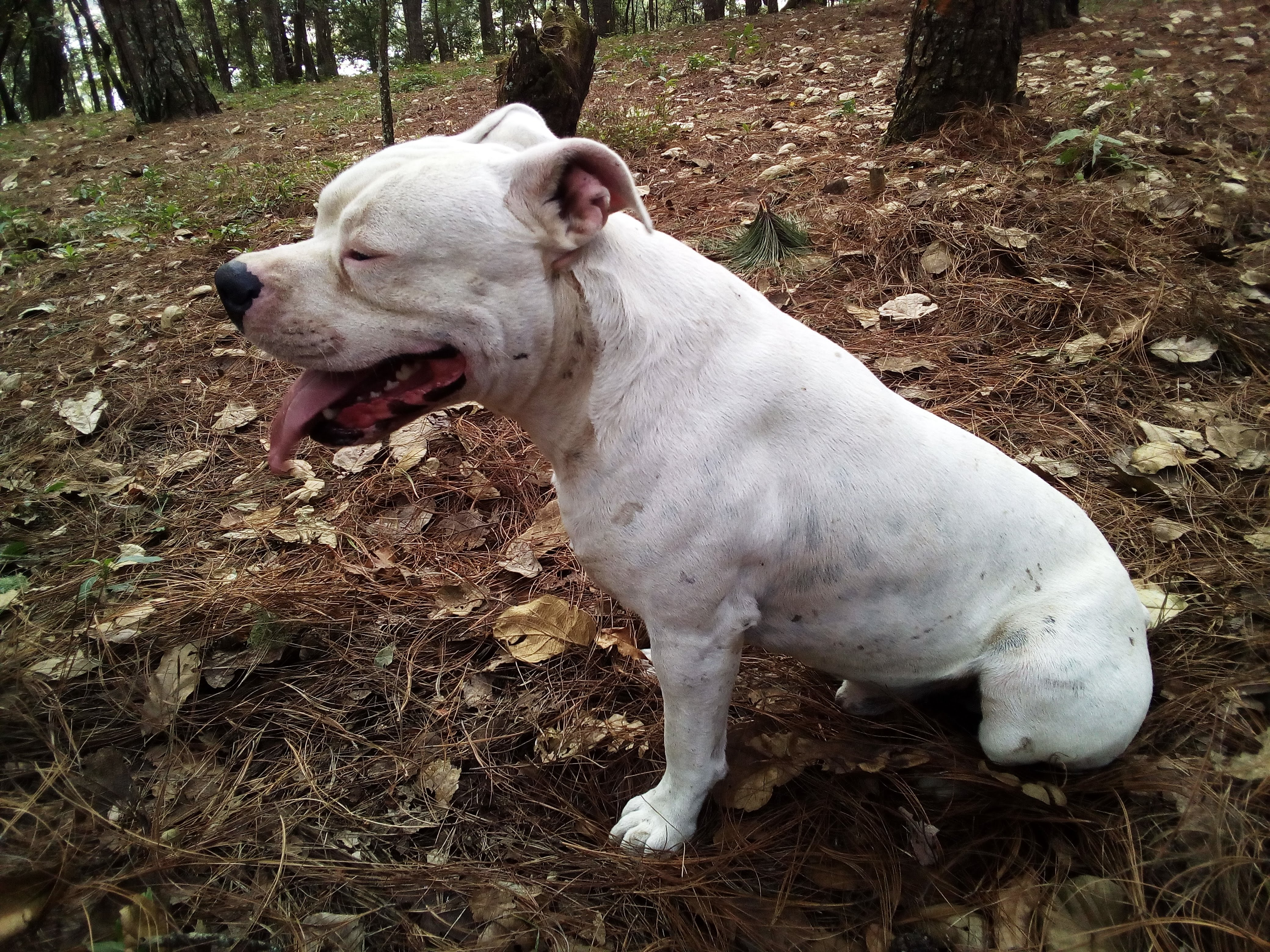 Takin a break after jogging.